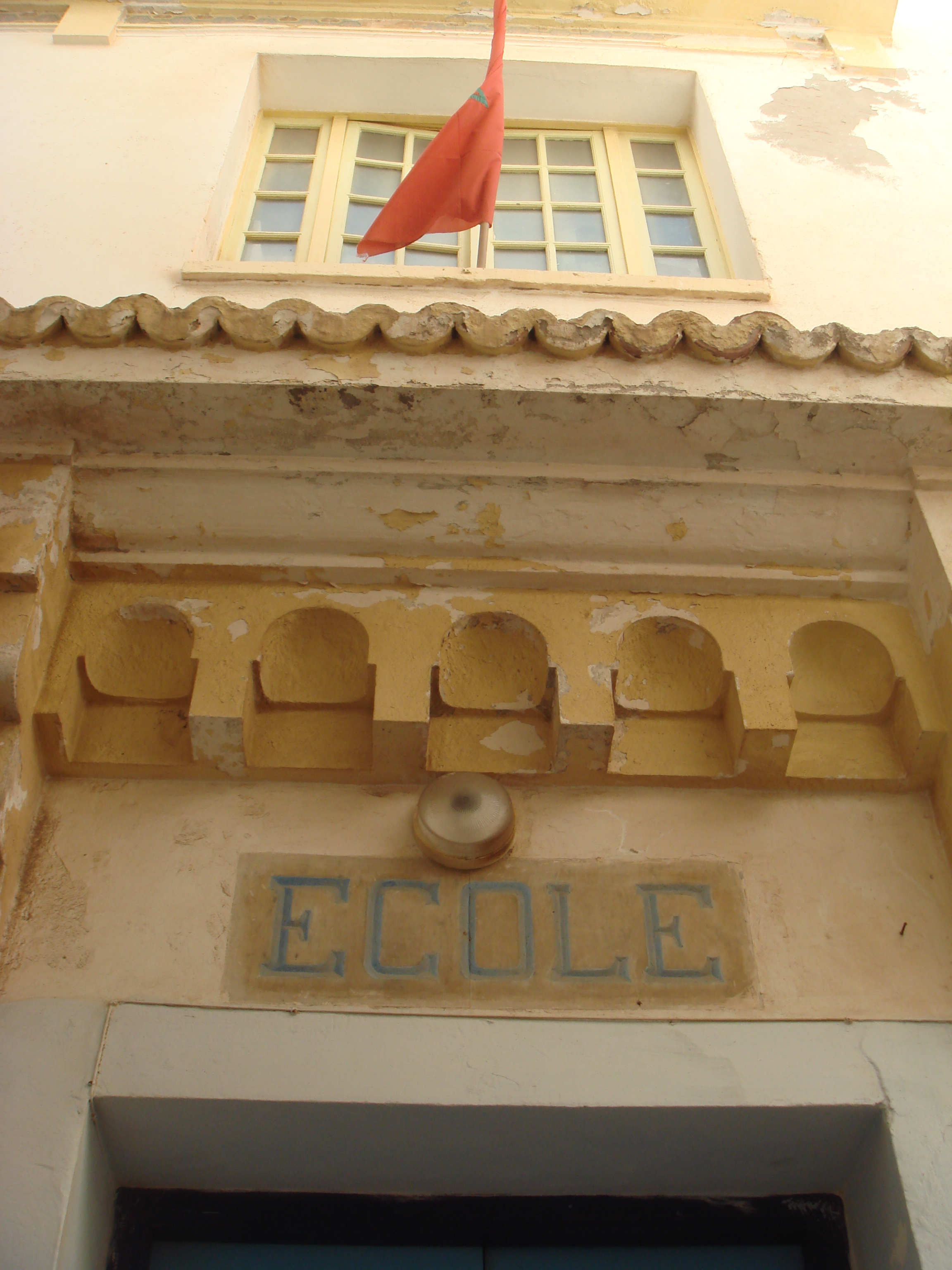 Franco-Moroccan_school_in_Derb_Dharb_street_Essaouira